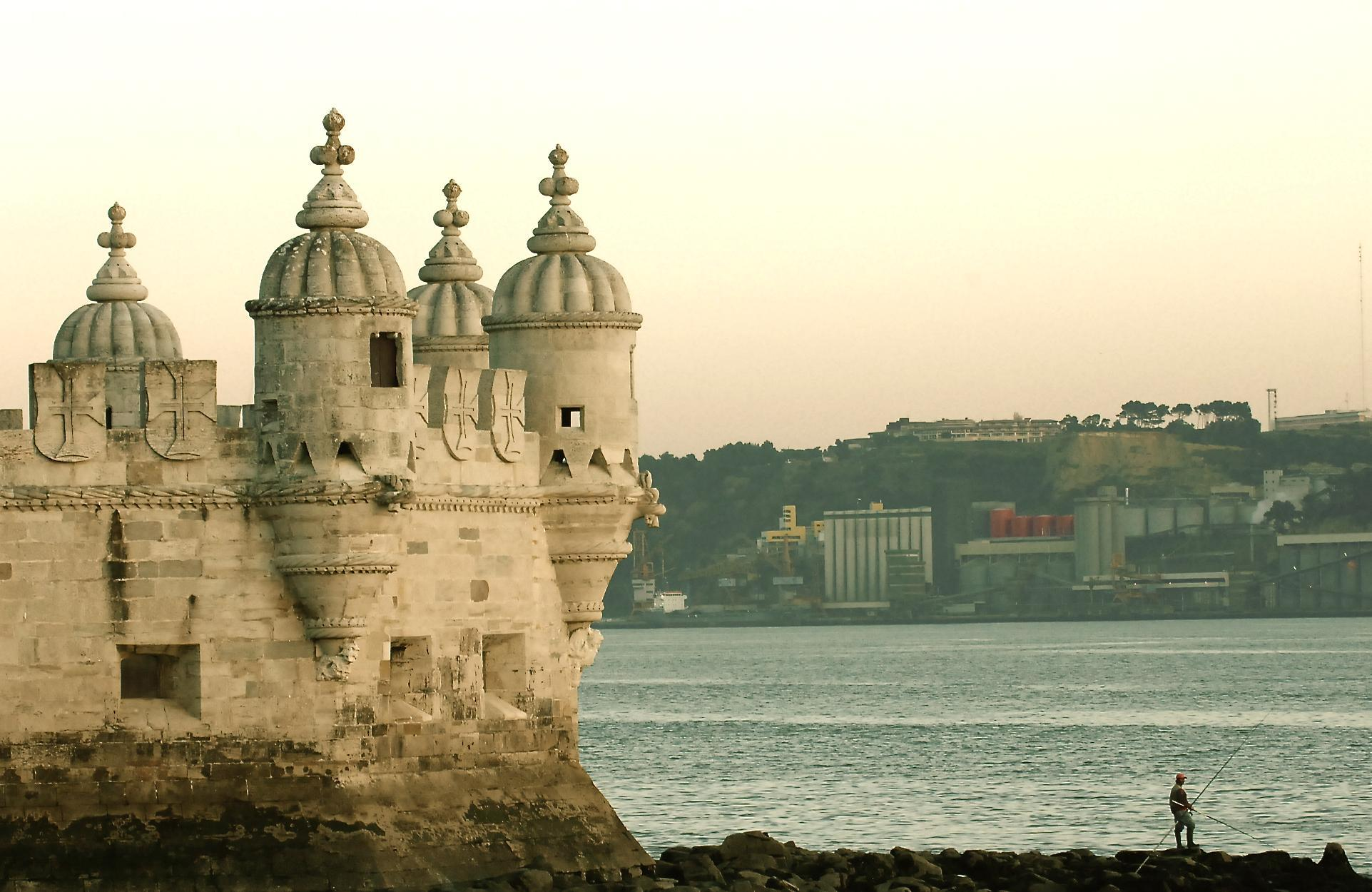 Bartizans in Belem Tower, Lisbon, Portugal.